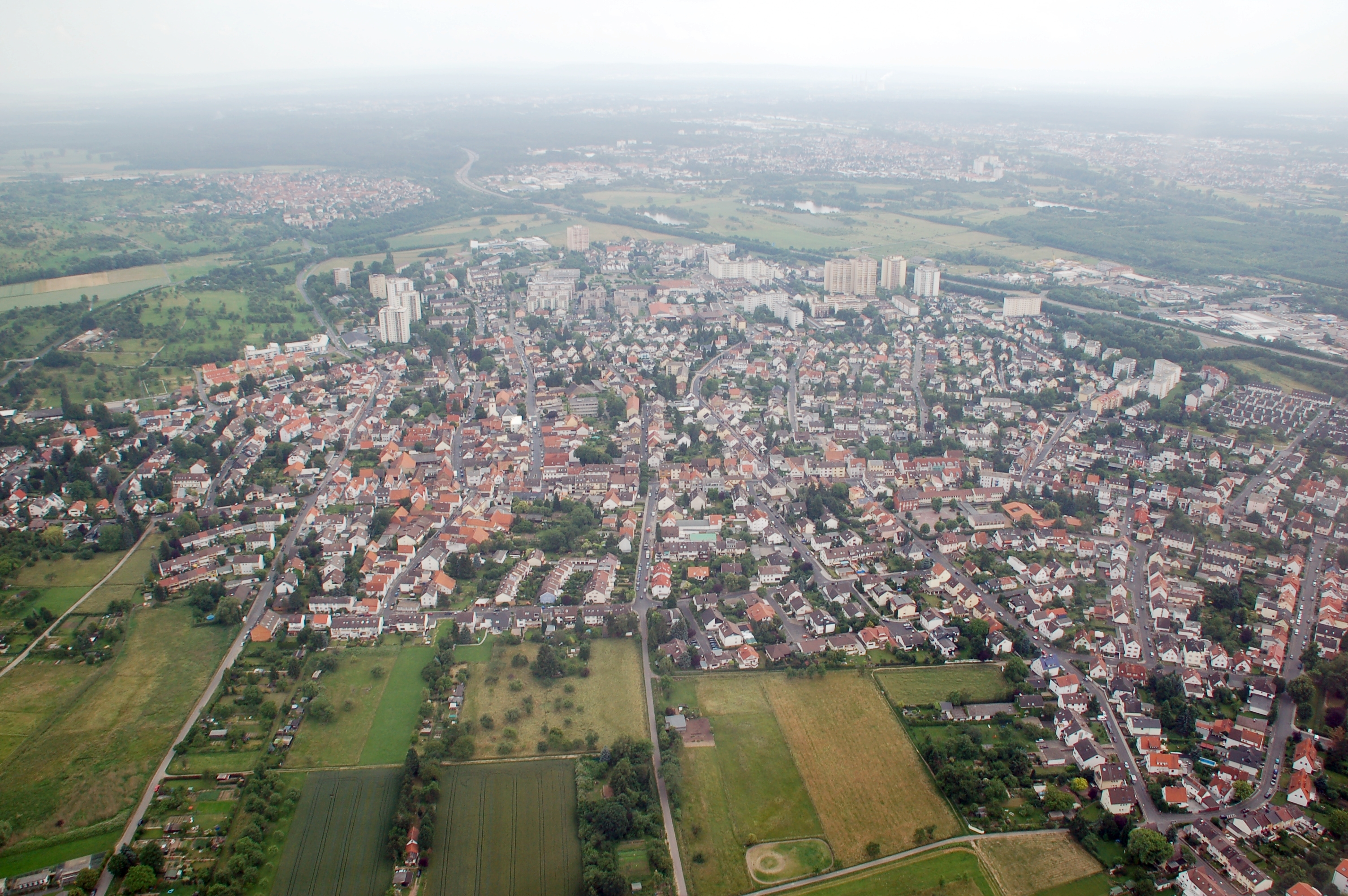 Aerial photograph of Maintal-Bischofsheim, Hessen, Germany